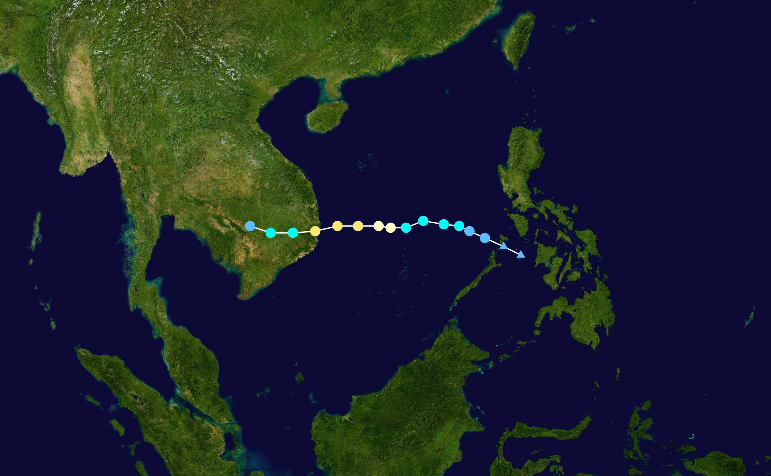 Track map of Typhoon Damrey of the 2017 Pacific typhoon season. The points show the location of the storm at 6-hour intervals. The colour represents the storm's maximum sustained wind speeds as classified in the Saffir–Simpson scale (see below), and the shape of the data points represent the nature of the storm, according to the legend below. Saffir–Simpson scale Tropical depression≤38 mph≤62 km/h Category 3111–129 mph178–208 km/h Tropical storm39–73 mph63–118 km/h Category 4130–156 mph209–251 km/h Category 174–95 mph119–153 km/h Category 5≥157 mph≥252 km/h Category 296–110 mph154–177 km/h Unknown Storm type Tropical cyclone Subtropical cyclone Extratropical cyclone / Remnant low / Tropical disturbance / Monsoon depression